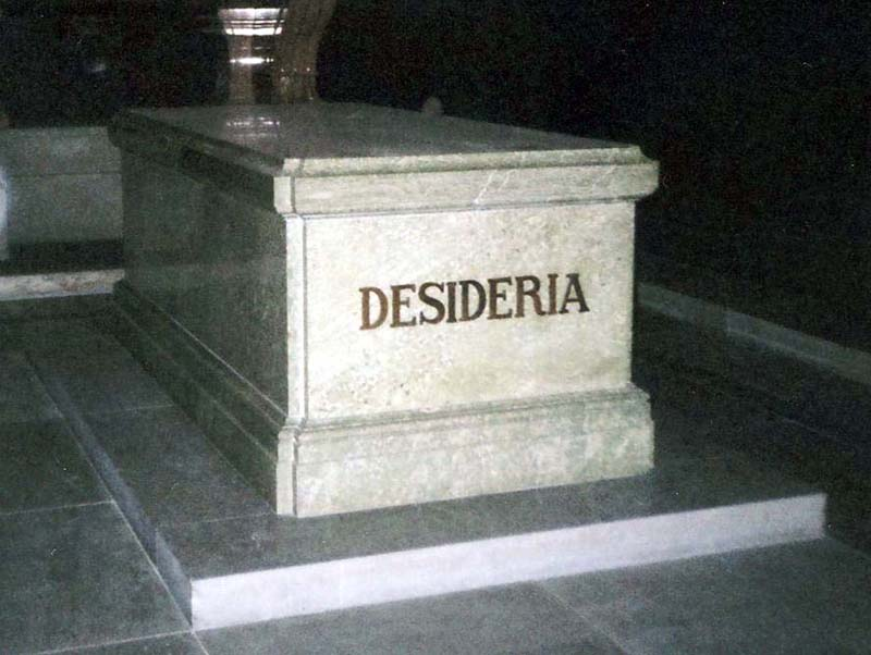 Grave of Queen Desideria of Sweden and Norway (1777-1860) on the ground floor of the Bernadottean Chapel at Riddarholm ChurchPlace: Stockholm, Sweden